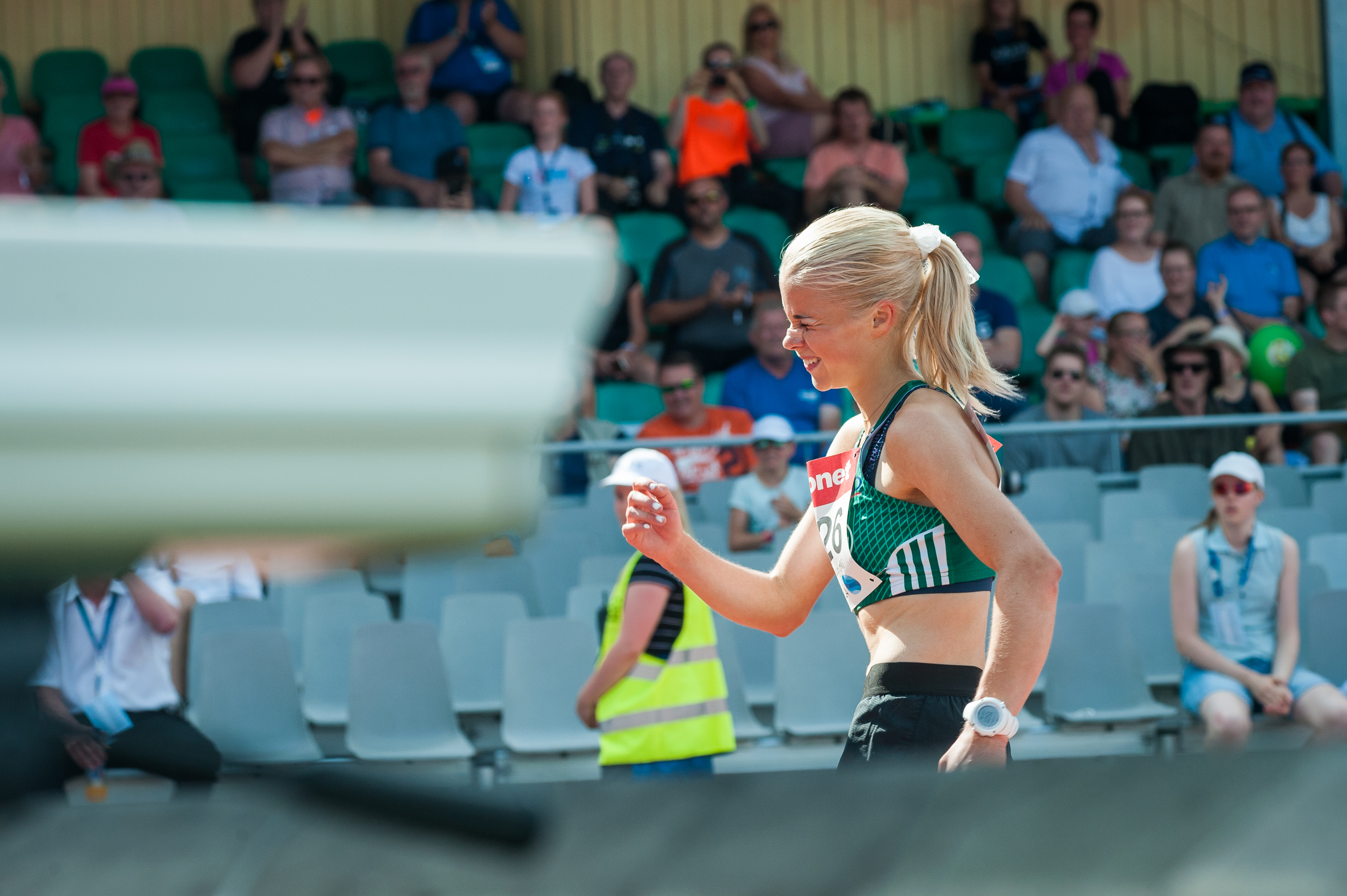 Women's 5000 m competition at the 2018 Kalevan Kisat, the Finnish championships in athletics, in Jyväskylä, Finland.